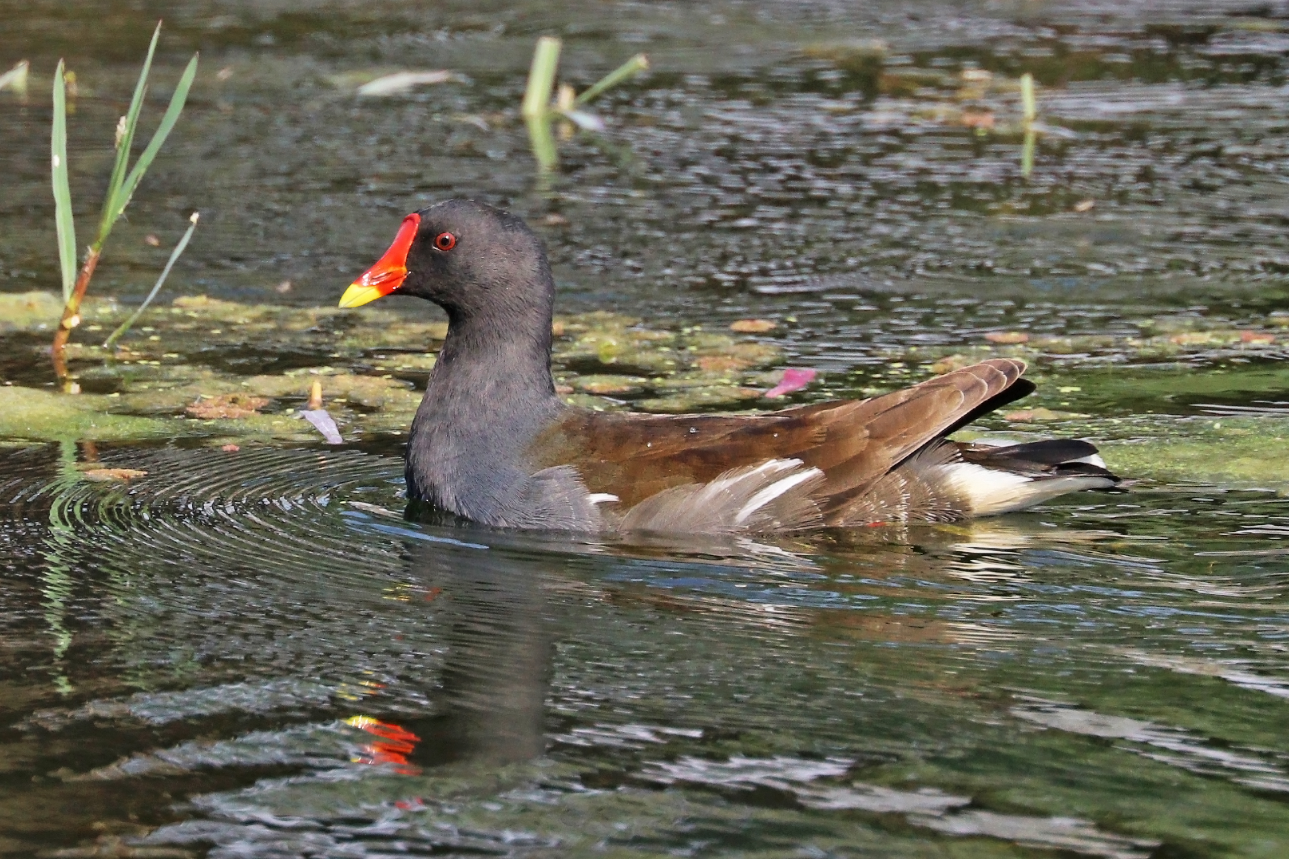 Common moorhen (Gallinula chloropus), Keoladeo NP, Bharatpur, India